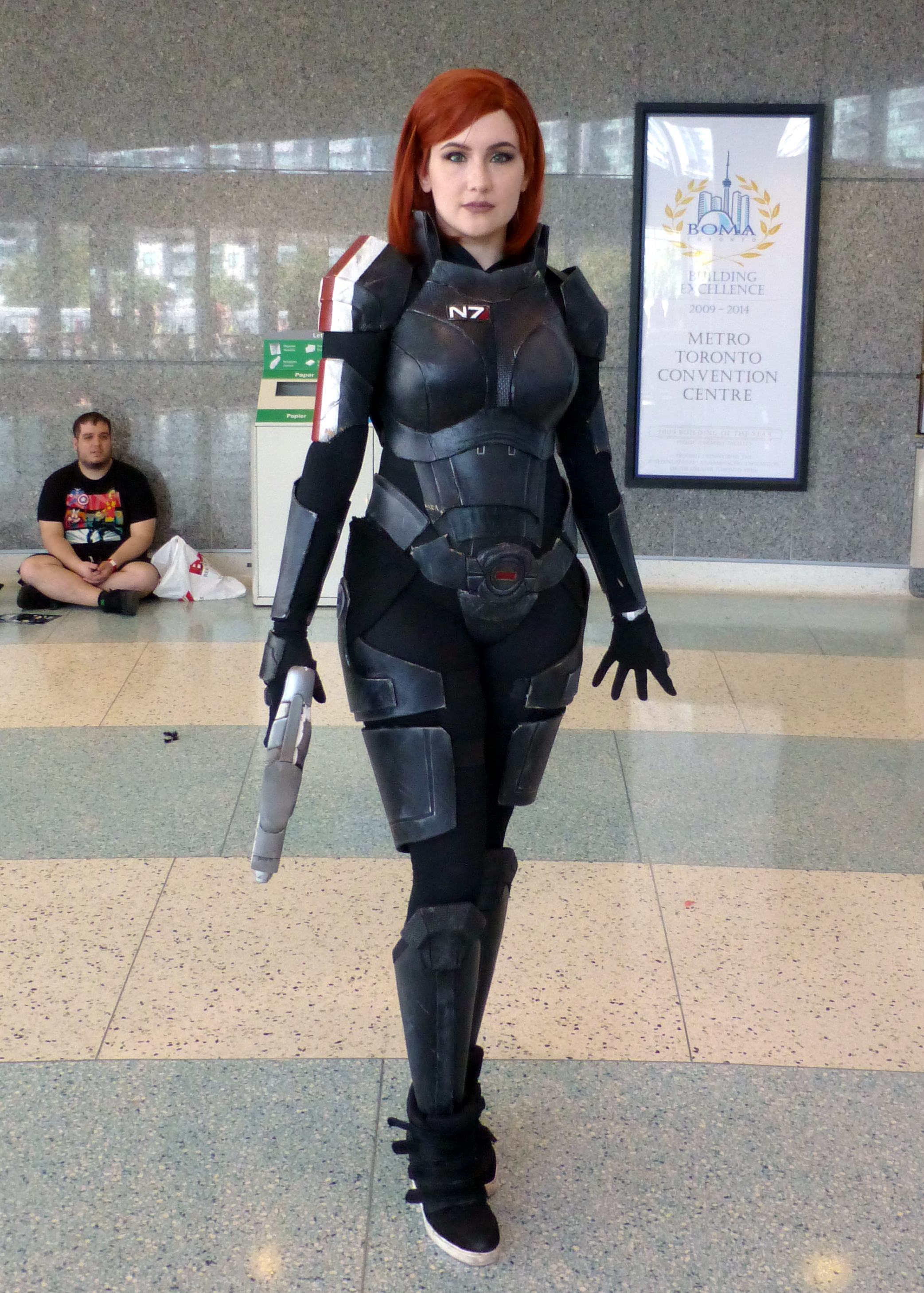 MalinkaCosplay as Commander Shephard (Mass Effect) Cosplay at Fan Expo Canada in 2015.